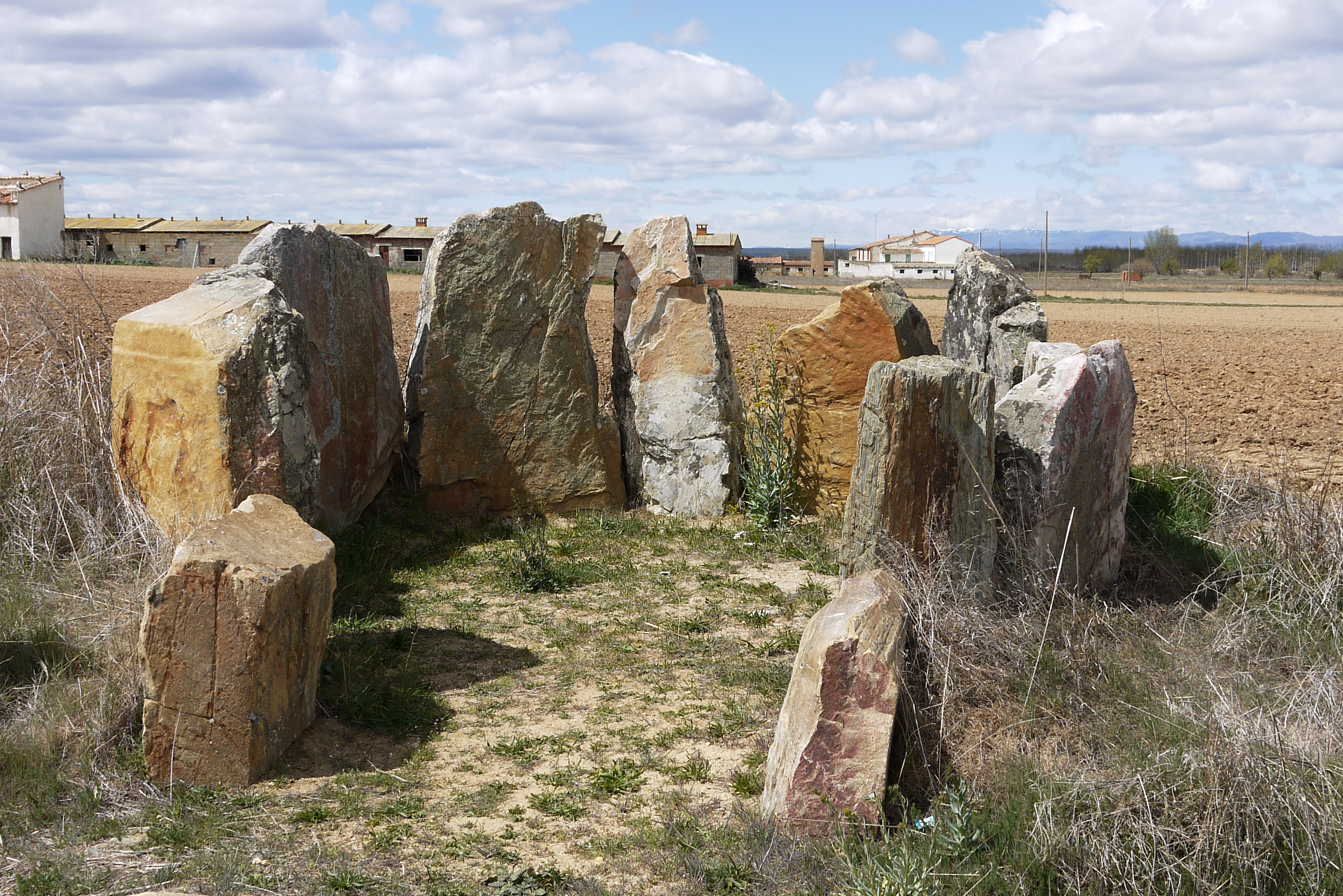 Dolmen "Las Peñezuelas" at Granucillo de Vidriales, Zamora, Spain.